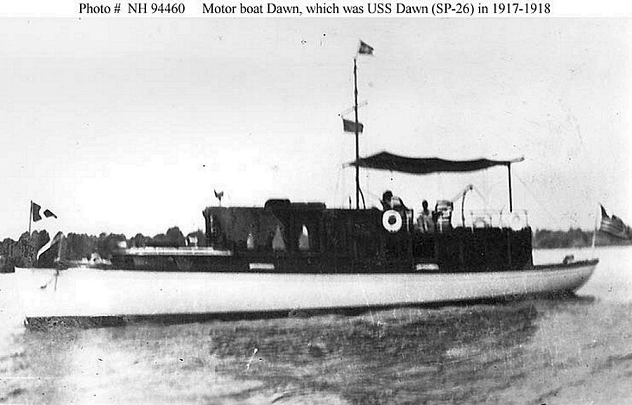 Motorboat Dawn prior to her 1917-1918 United States Navy service as patrol vessel USS Dawn (SP-26)